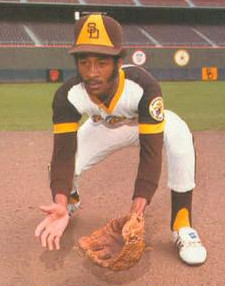 Professional baseball player Ozzie Smith